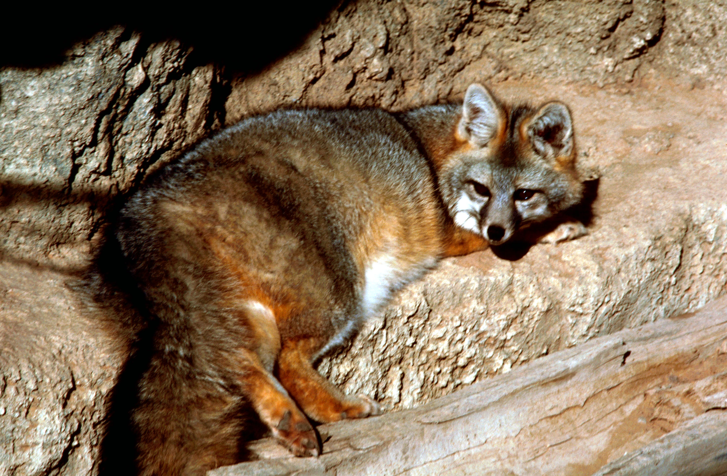 Gray Fox (Urocyon cinereoargenteus), New Mexico